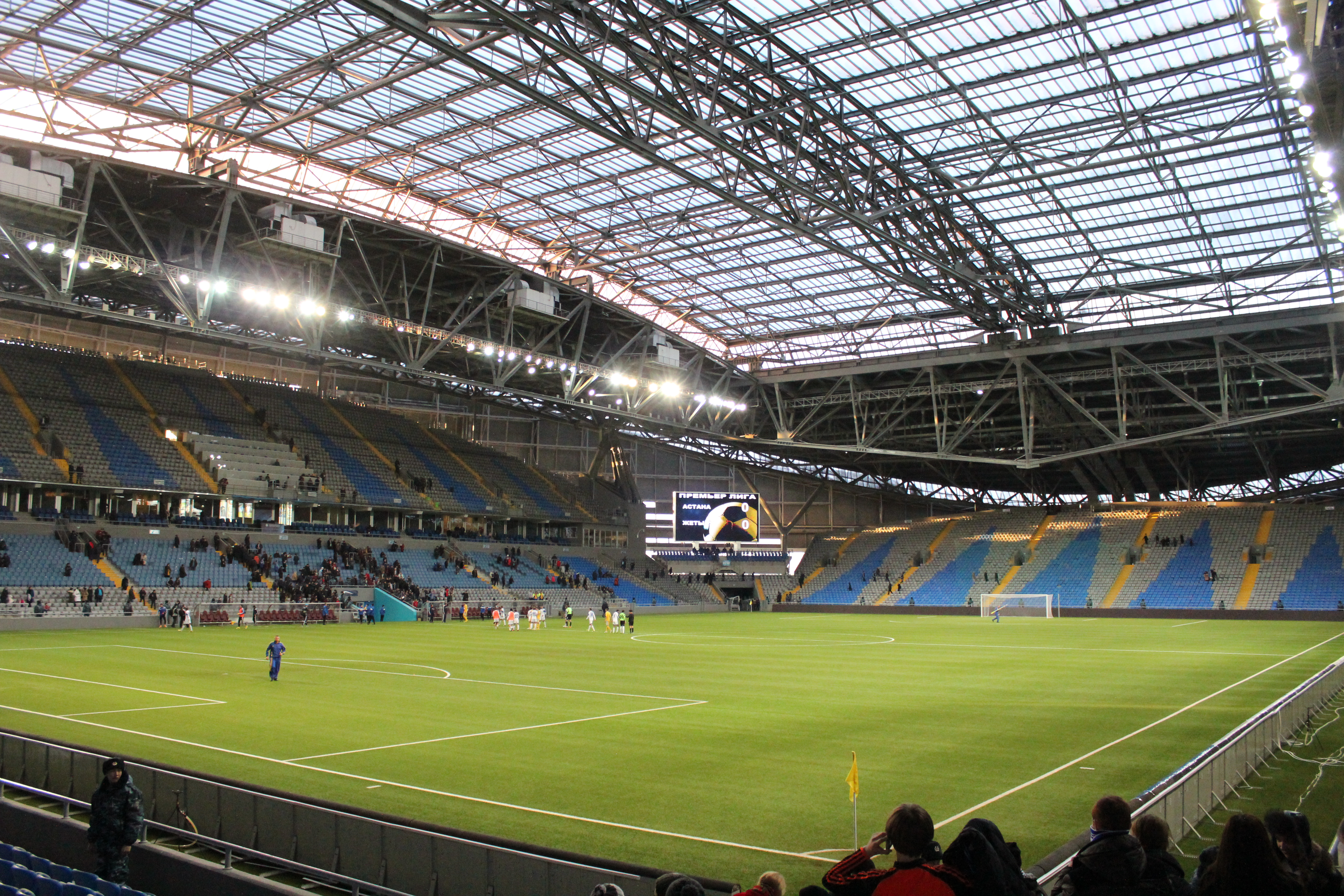 Astana Arena inside interior.